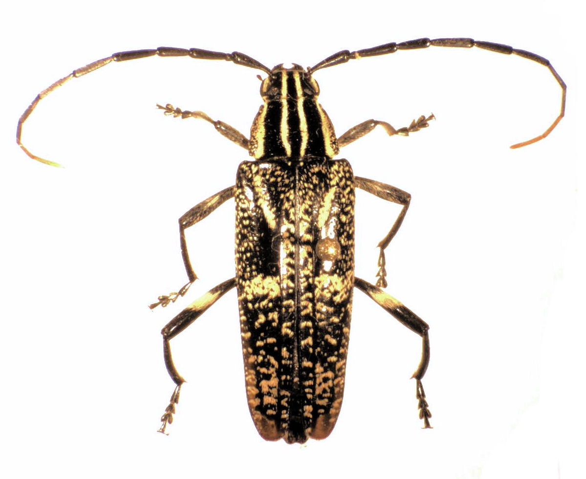 adult Coptomma variegatum